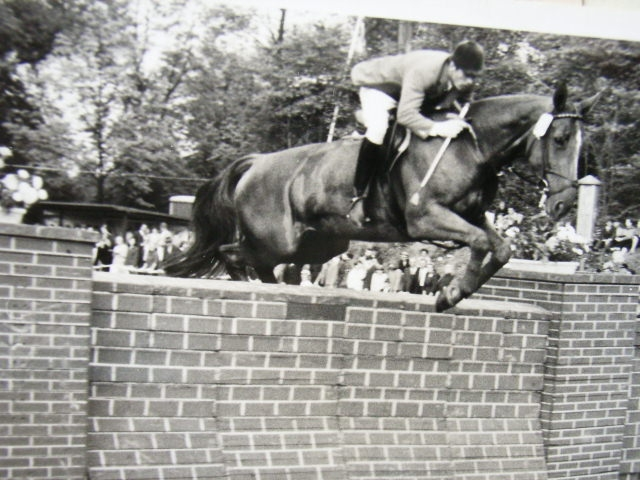 Alwin Schockemöhle with Zukunft ,Wilhelmshaven (Germany), pussiance (show jumping), ca. 1965